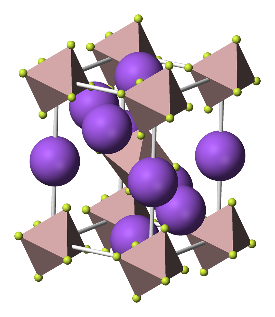 Cryolite unit cell 3D polyhedra